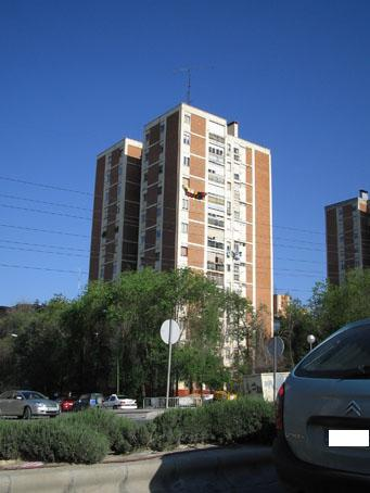 Building in San Cristobal de los Ángeles, in the district of Villaverde, in Madrid